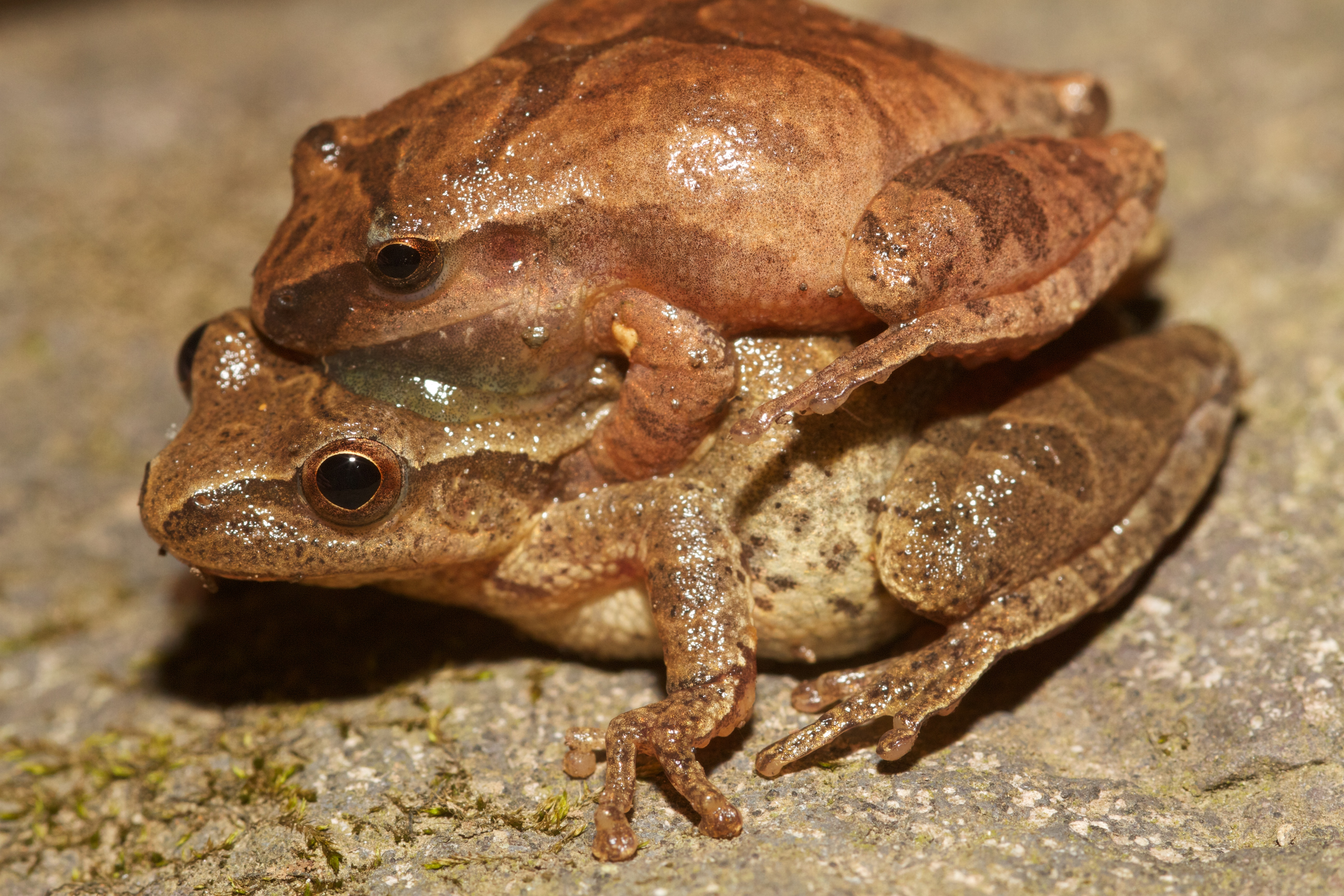 Spring peepers (Pseudacris crucifer) mating in amplexus. Male is on top and female on bottom.